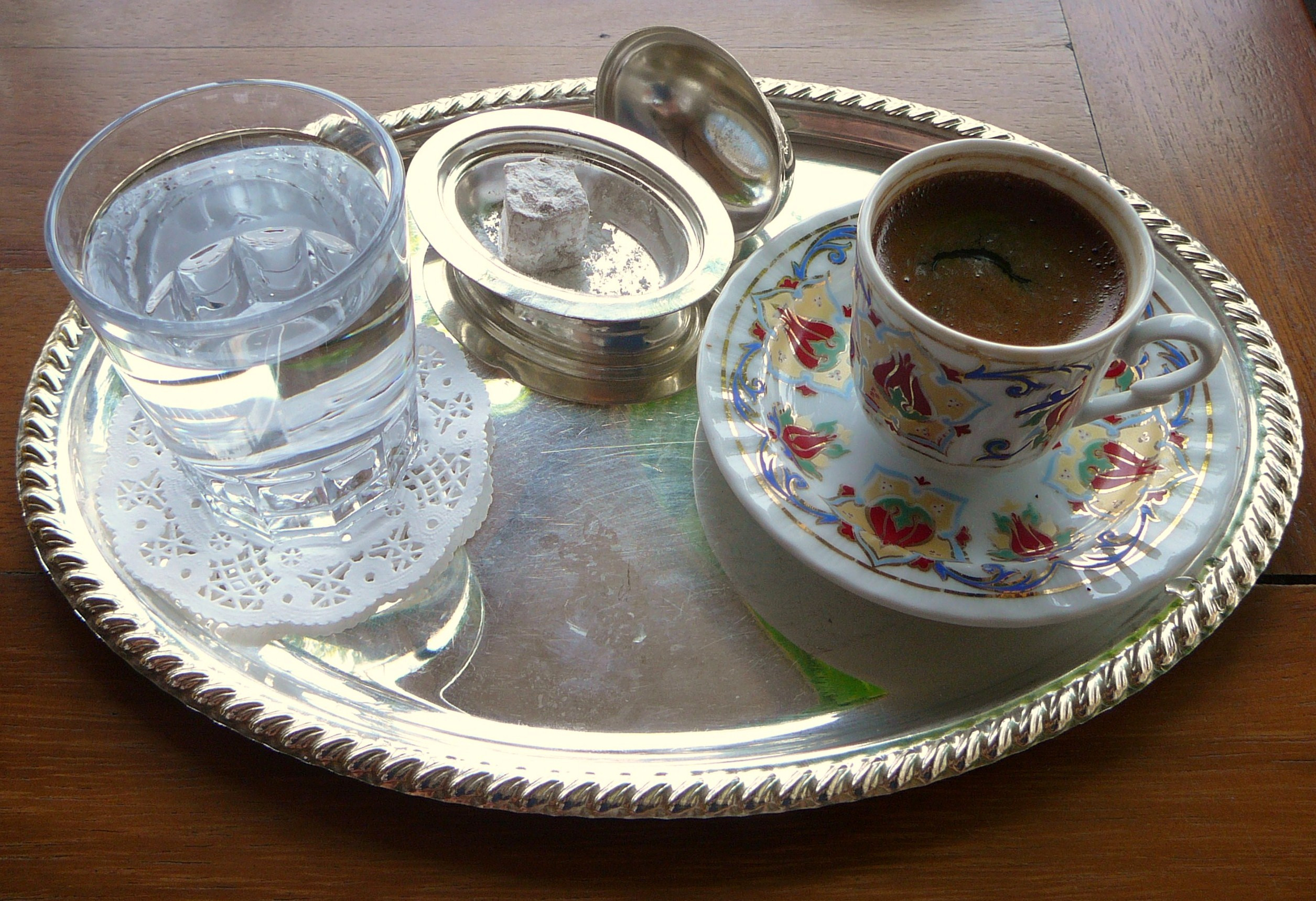 Traditional service of Turkish coffee with Turkish delight and a glass of water (a coffehouse at Bosphorus, Istanbul May 2010)